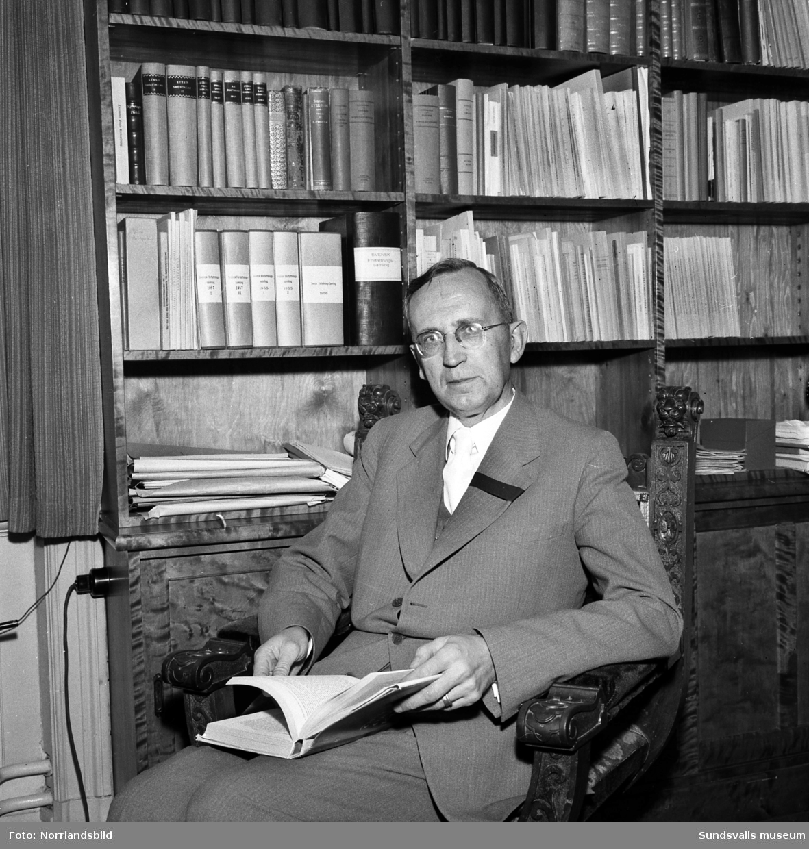 Swedish bishop (later archbishop) Gunnar Hultgren (1902-1991) in his home in Härnösand.